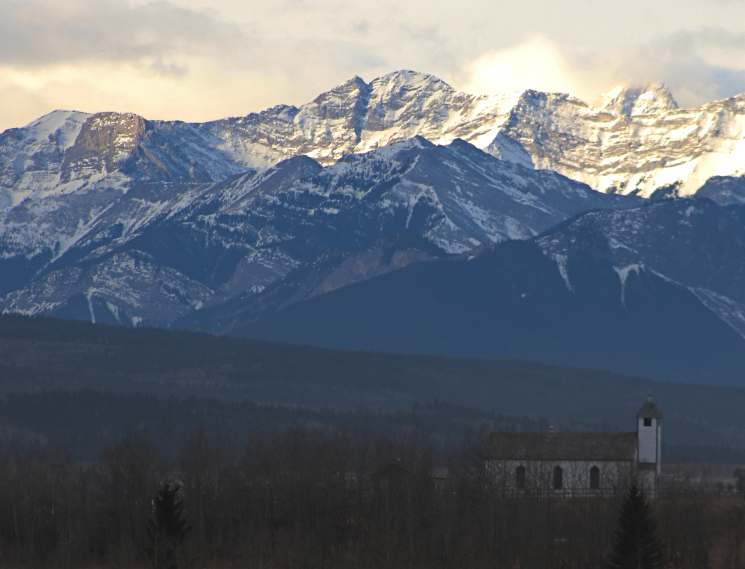 Skogan Peak seen with Morley church, westbound to Canadian Rockies, Alberta Canada